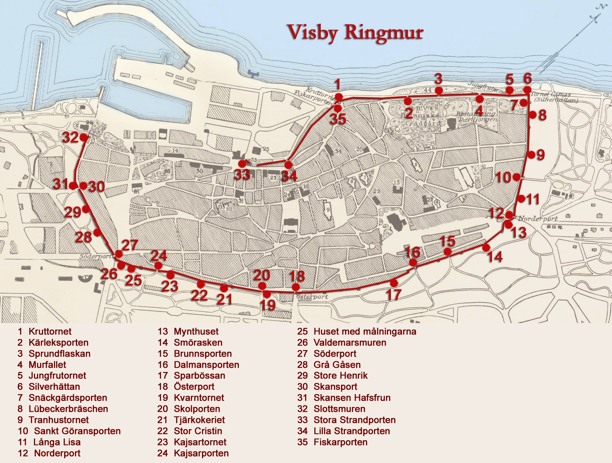 The city wall of Visby enhanced on a map from Project Runeberg, Gotland Sweden.